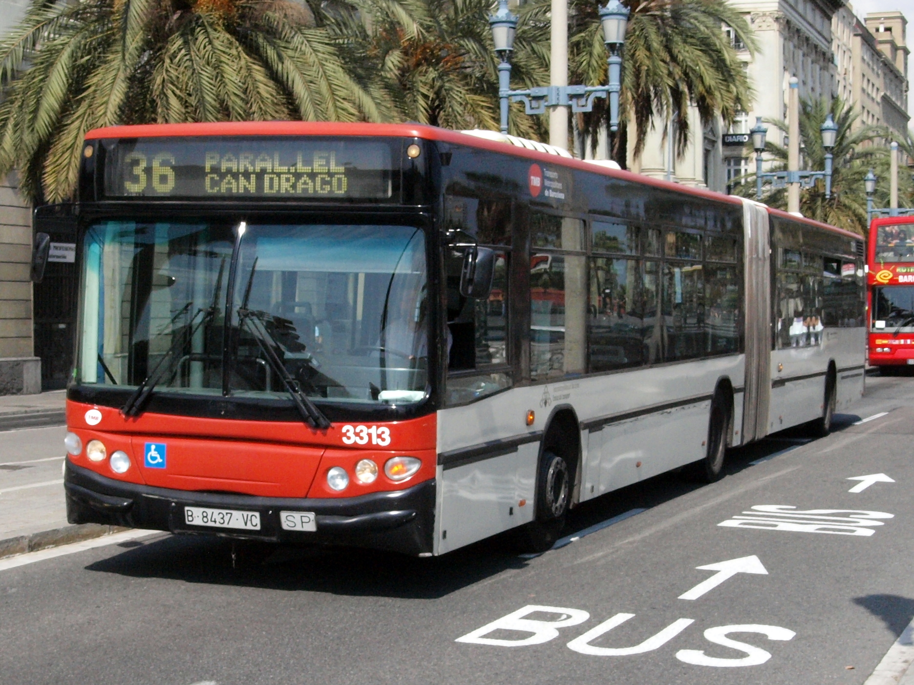 Photographed at Barcelona. TMB harmonica bus